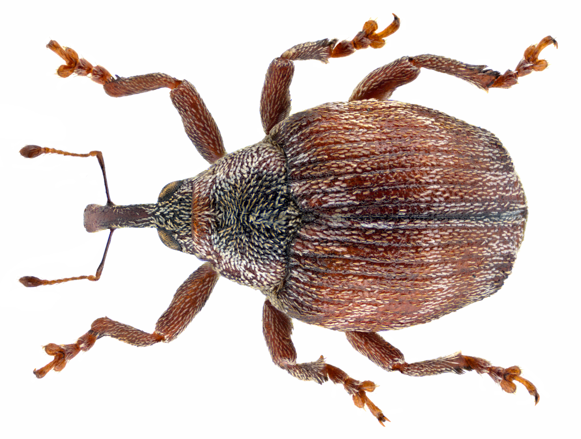 Family: Curculionidae Size: 3,0 mm (2,8-3,5 mm) Origin: North Africa, Europe Ecology: development in the buds of shrubs Location: England, Westerham leg.det. P.Harwood, 20.V.1921 Coll. Oxford University Museum of Natural History Photo: U.Schmidt, 2013